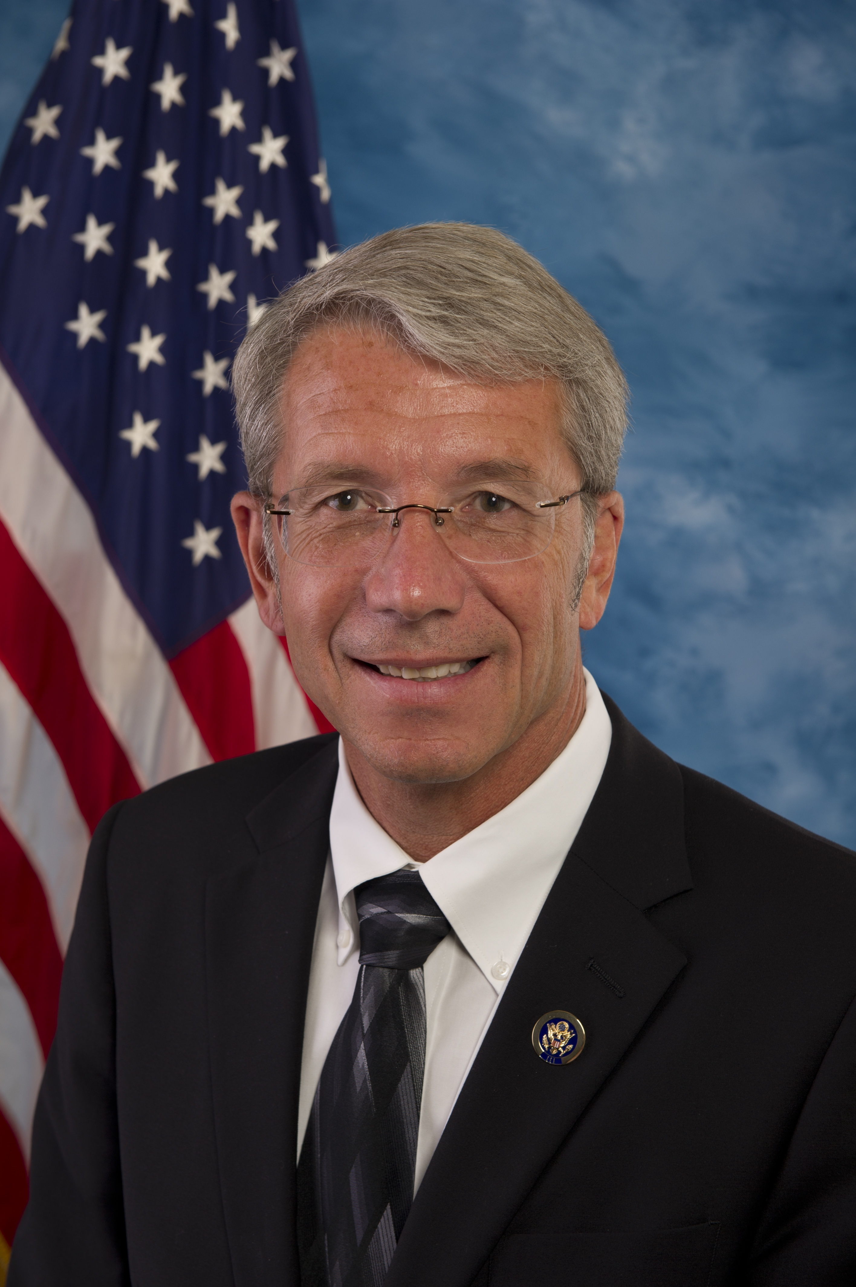 Official portrait of Congressman Kurt Schrader